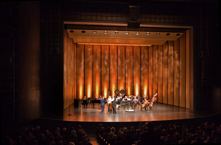 The full stage of the Harris Theater (Chicago)